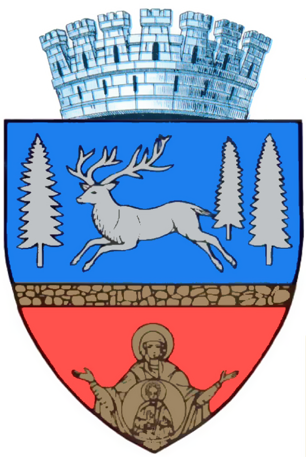 Bacău.